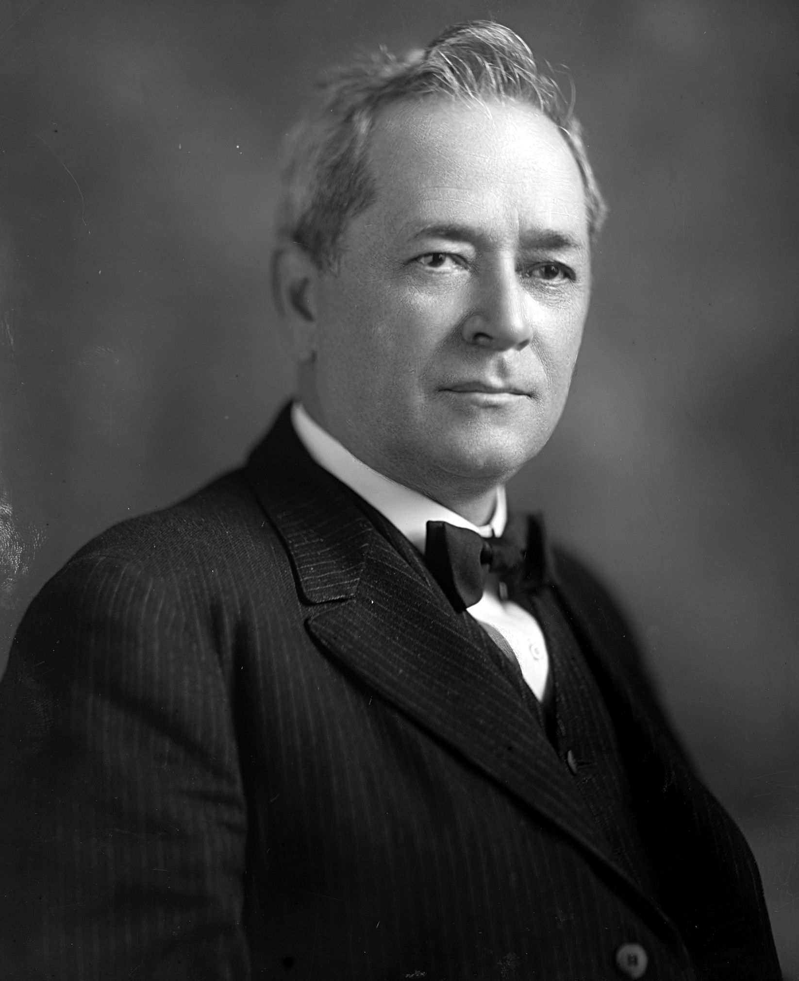 Charles N. Haskell, Governor of Oklahoma